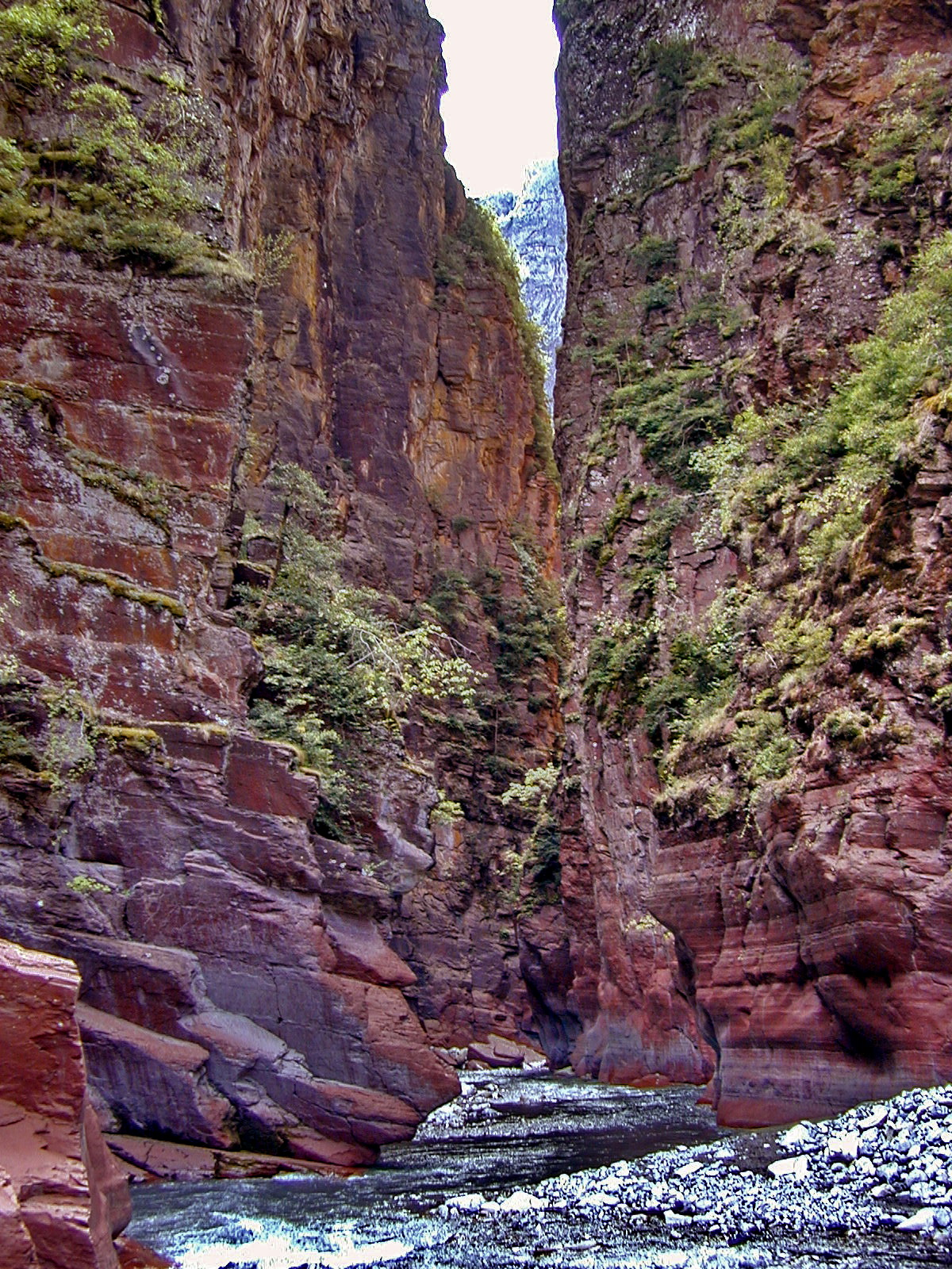 Daluis (06), Daluis canyon, Var river